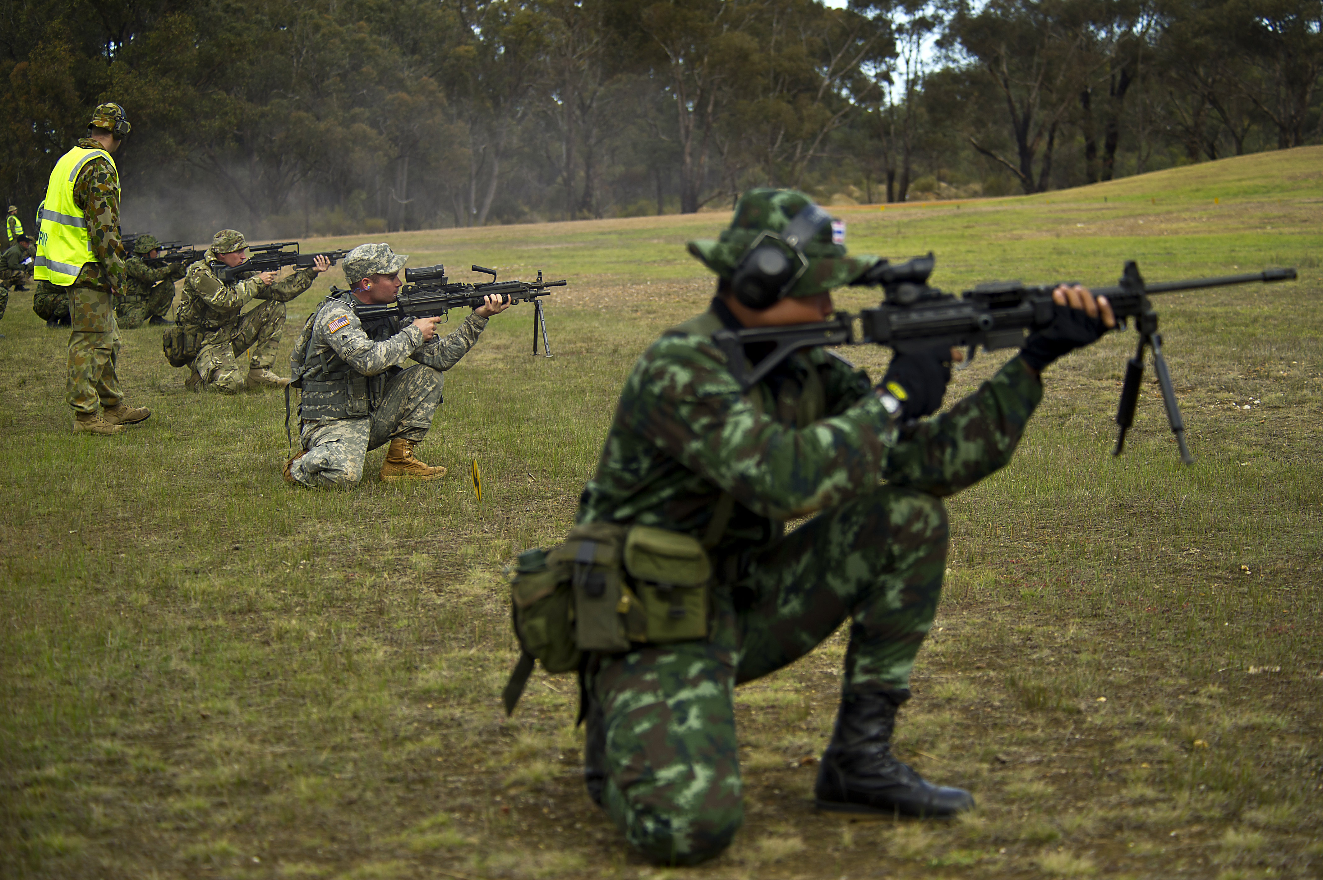 U.S. Army Sgt. Ethan Hall, center, with the 2nd Brigade, 25th Infantry Division, fires an M249 light machine gun during an international machine gun shooting match at the 2012 Australian Army Skill at Arms Meeting (AASAM) in Puckapunyal, Australia, May 9, 2012. AASAM was an international marksmanship competition that included 16 countries.